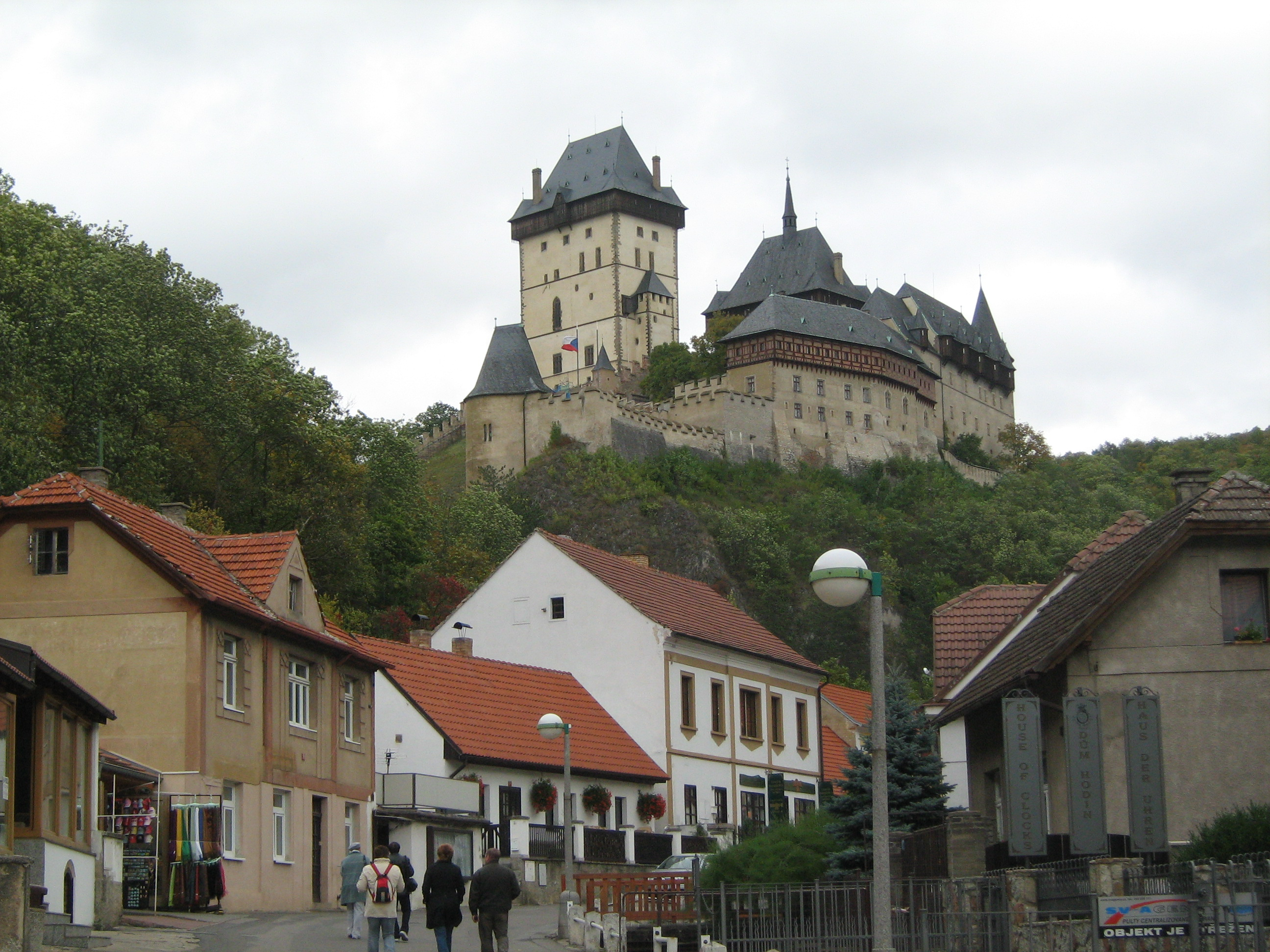 The Karlstejn Castle outside Prague. October 2008.